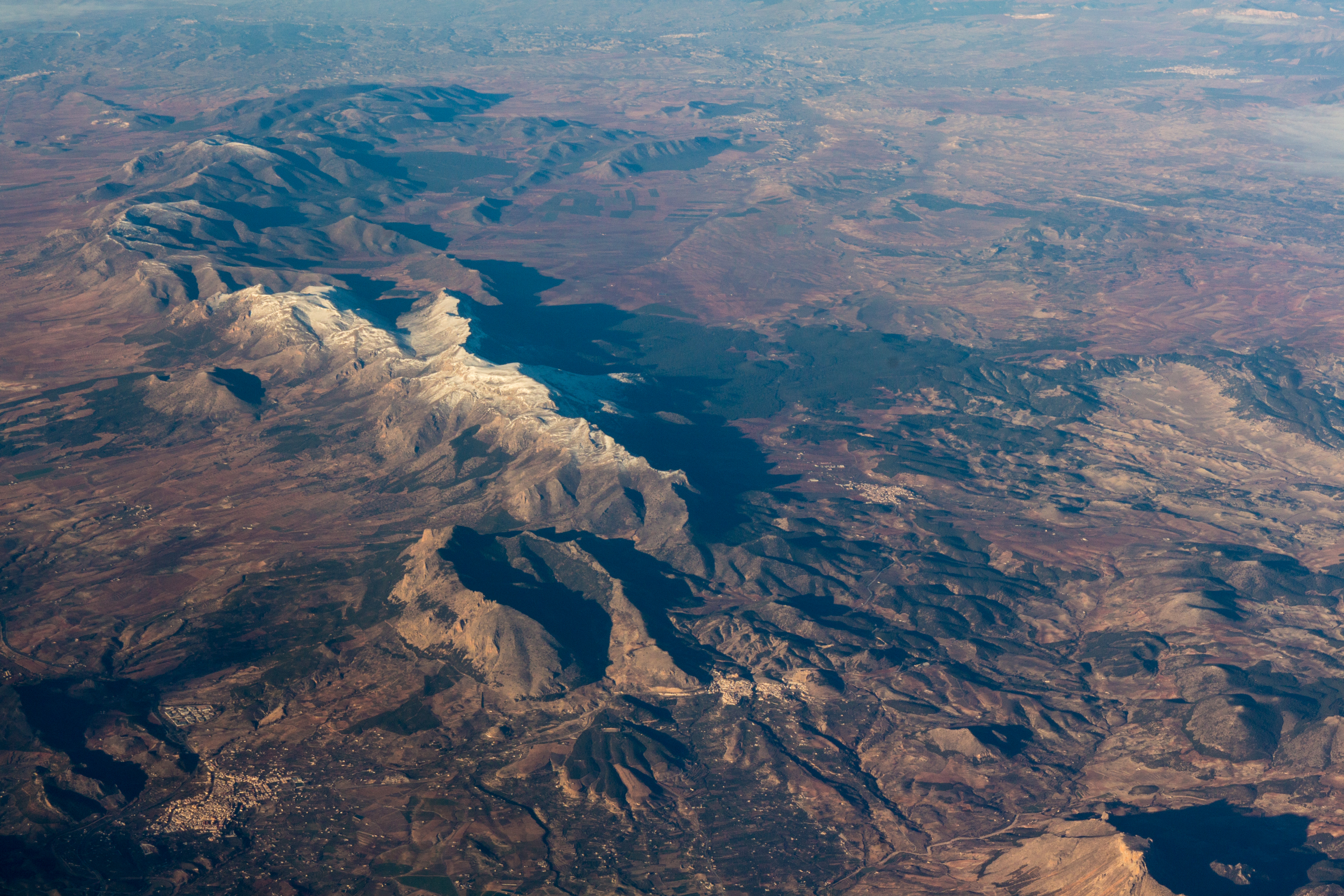 Sierra de María - Los Vélez Natural Park, Spain. Air Photo, West Side (2014)